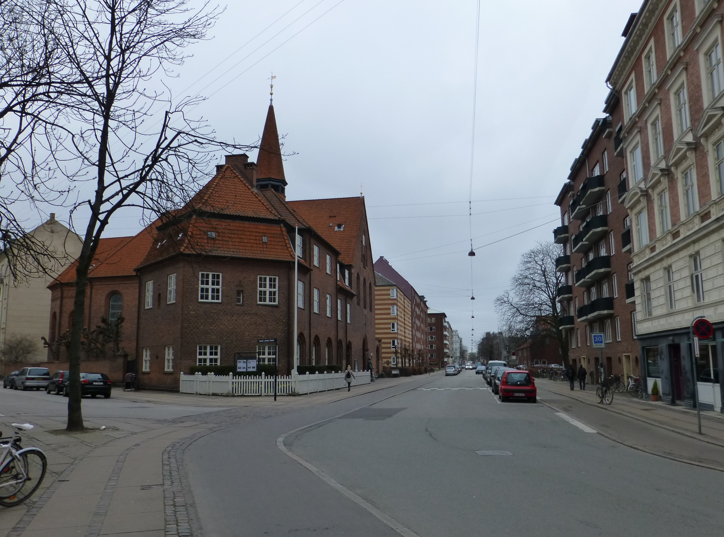 The street Randersgade at Sankt Jakobs Gade and Lutherkirken in Østerbro in Copenhagen.